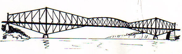 line art drawing of cantilever bridge.